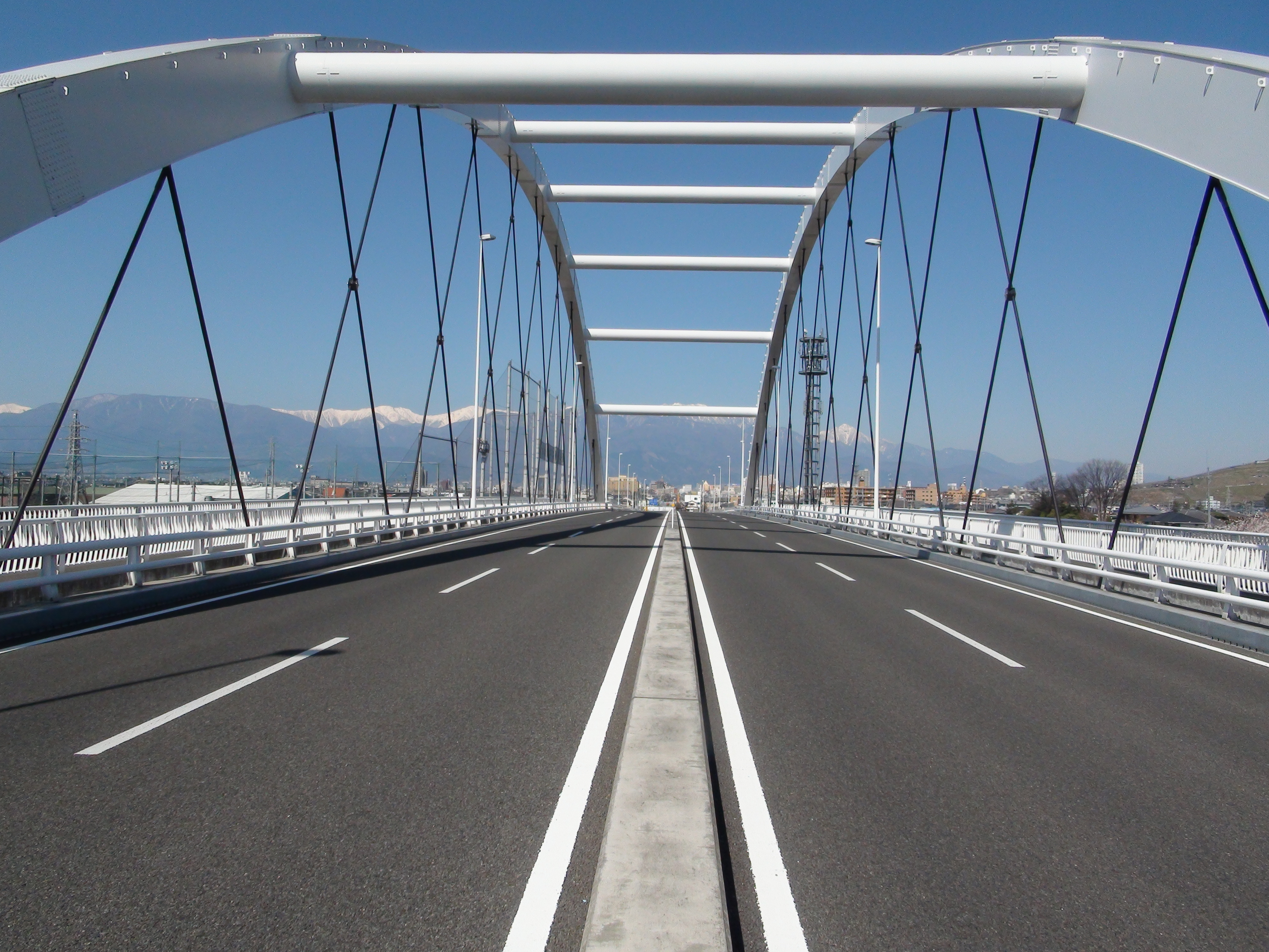 Joto Ohashi Bridge Route 411 Kofu Yamanashi